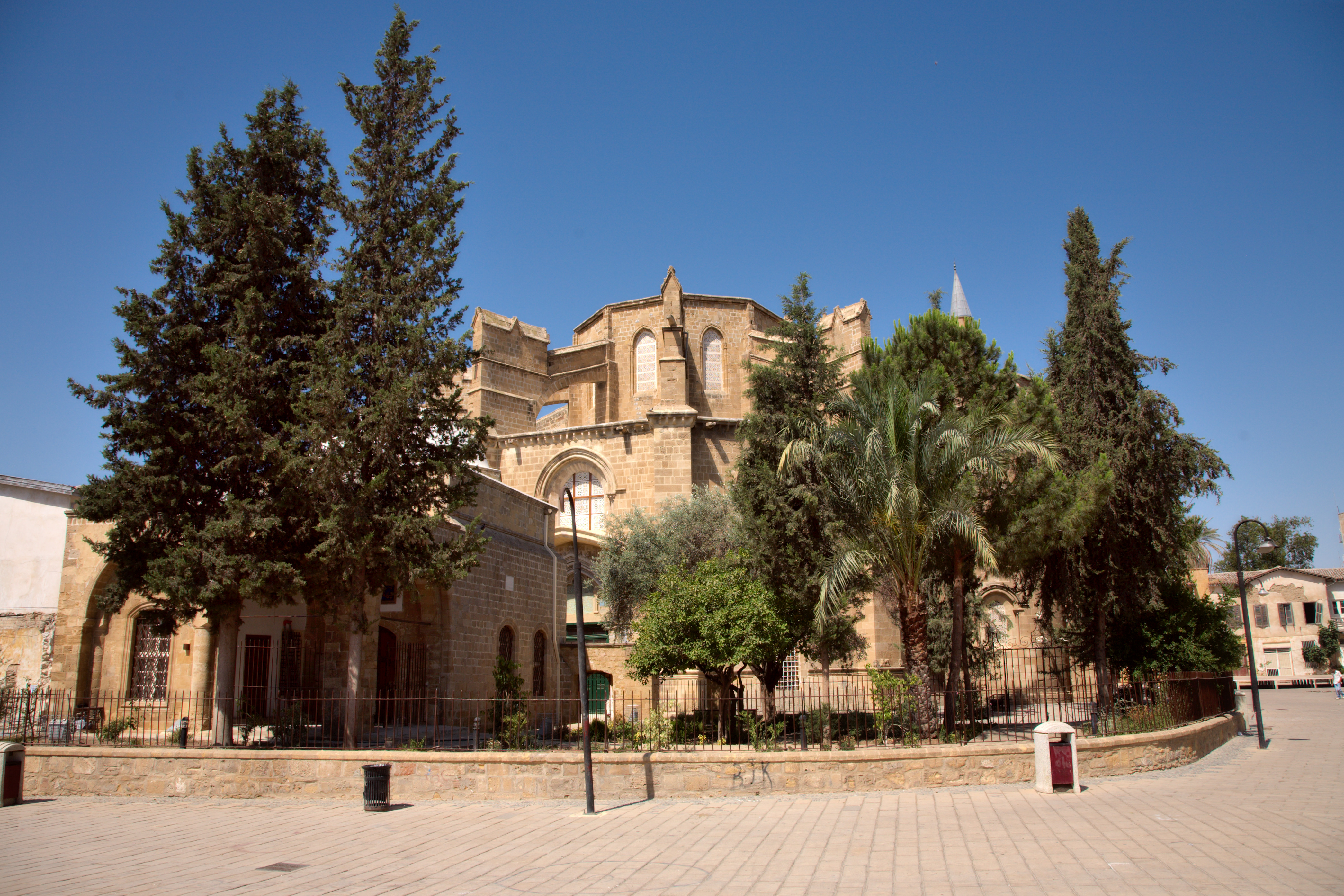 Selimiye Mosque in Nicosia (nothern part) former St.Spohie cathedral